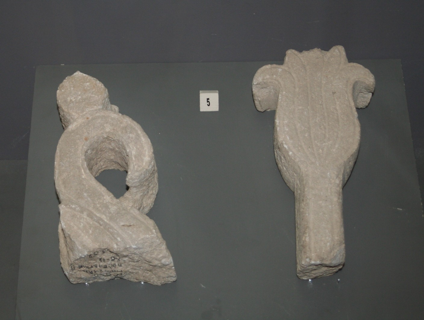 Temple friezes from Mingechevir